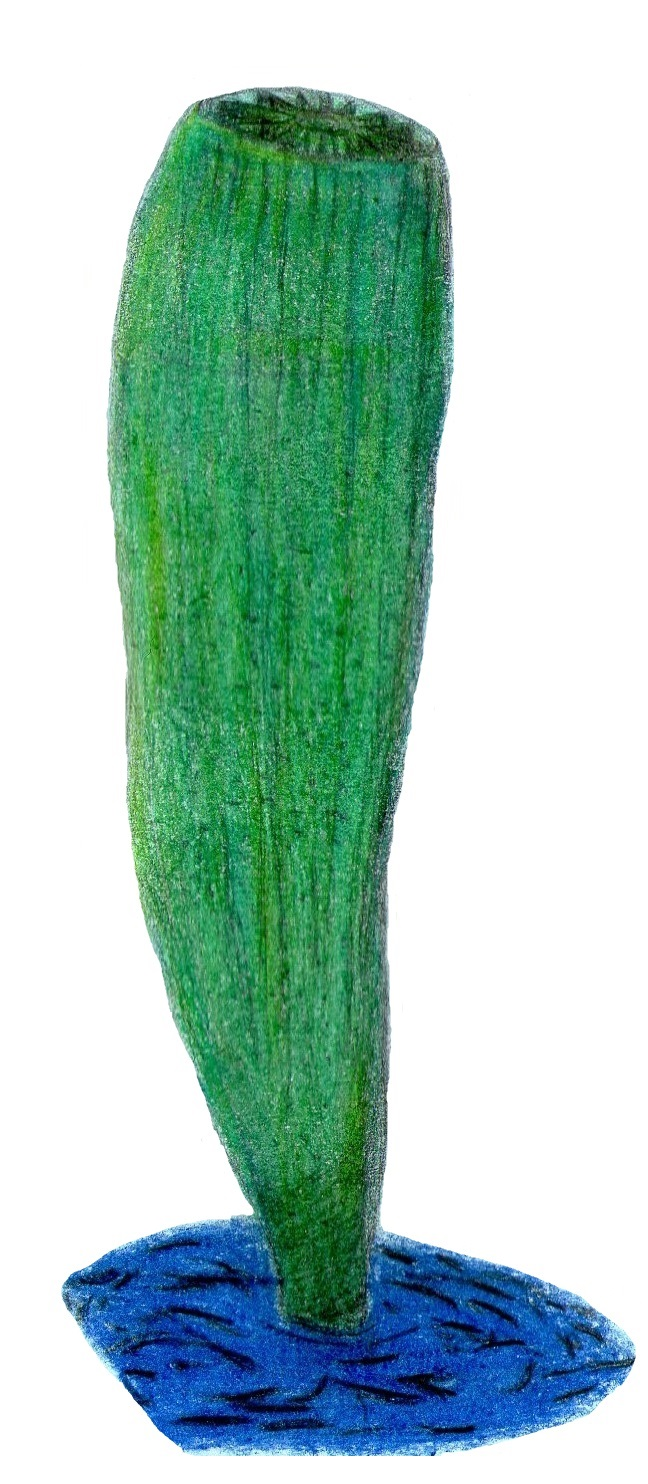 Restauration the Ethmophyllum whitneyi